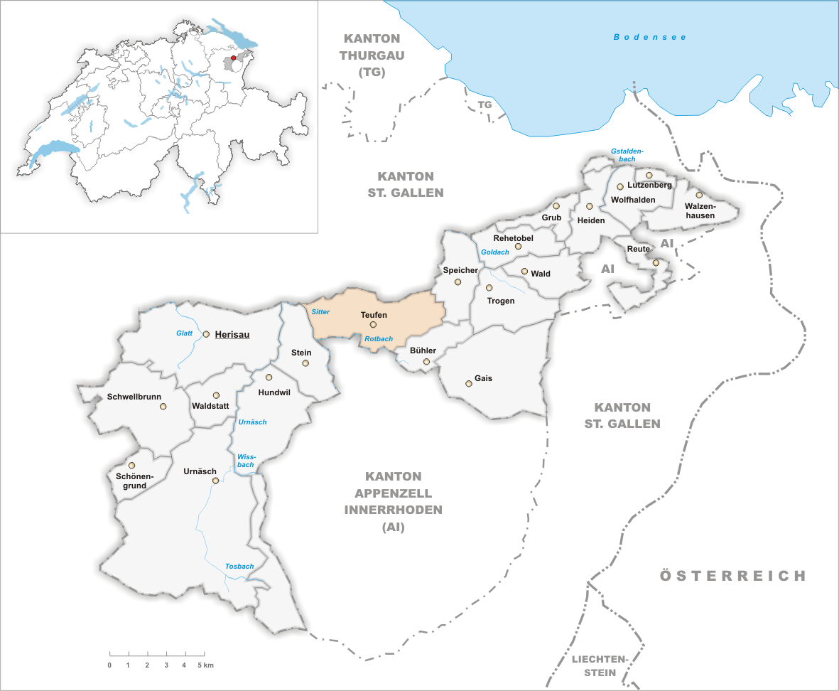 Municipality of Teufen